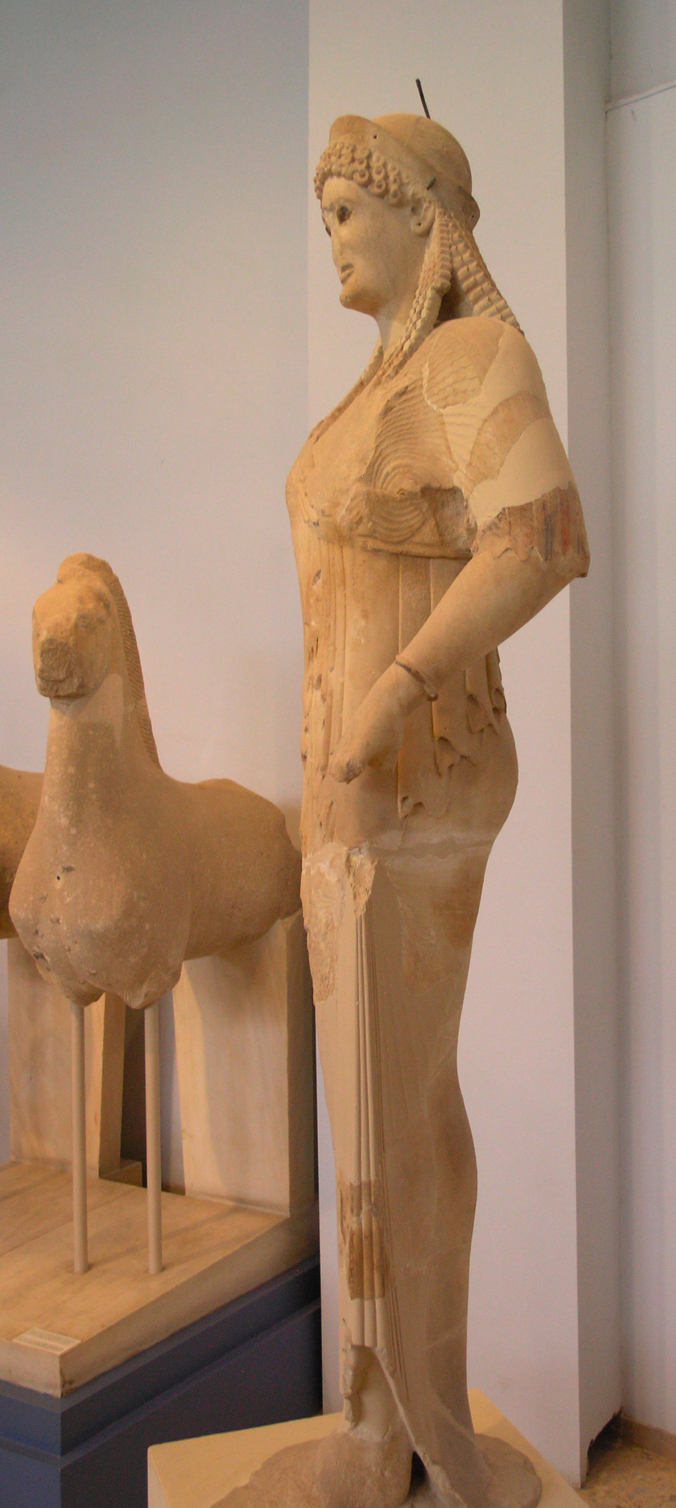 Antenor Kore, marble kore by Antenor, ca. 520 BC, found on the Acropolis